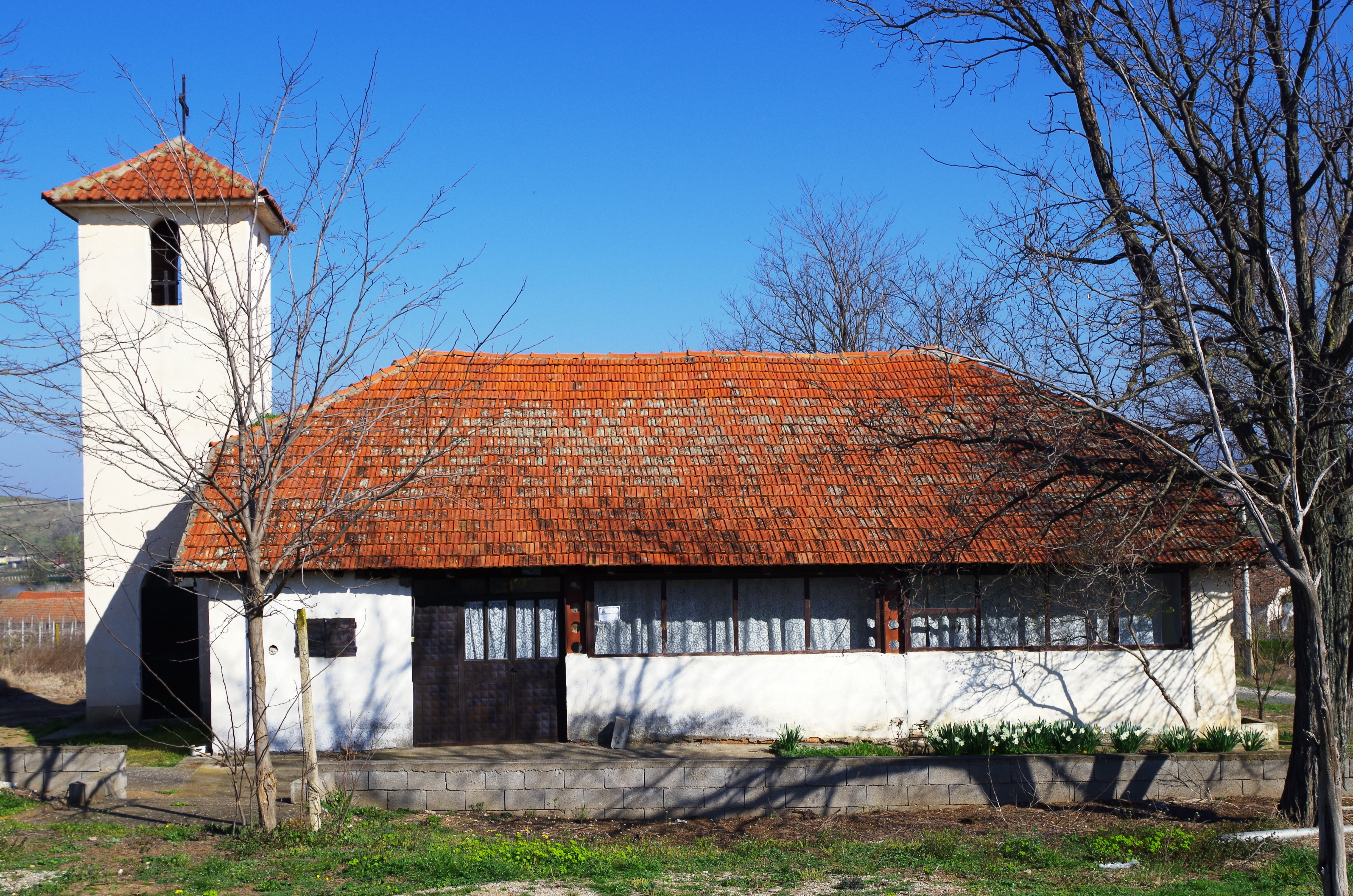 Church in the village Pepelište